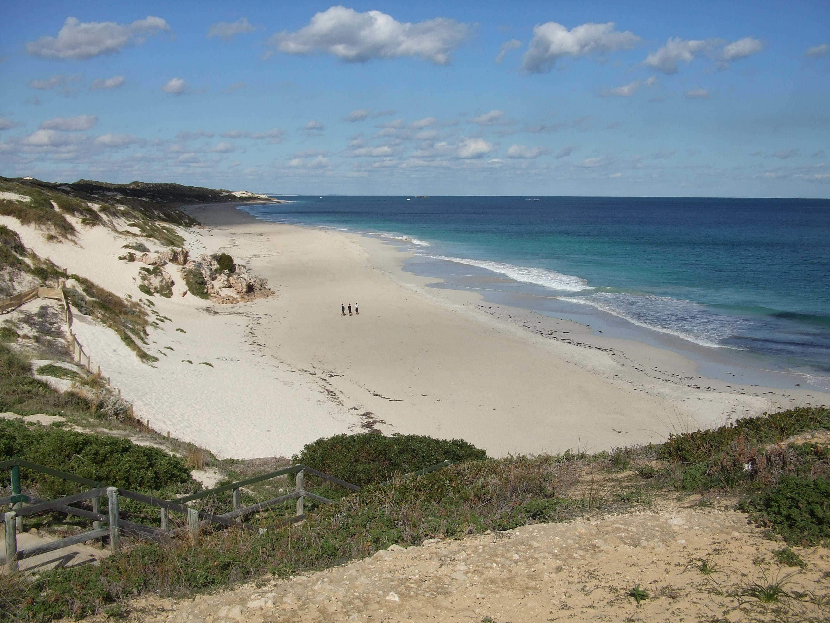 A photo of Claytons Beach in Mindarie, WA. A photo of Claytons Beach in Mindarie, WA.